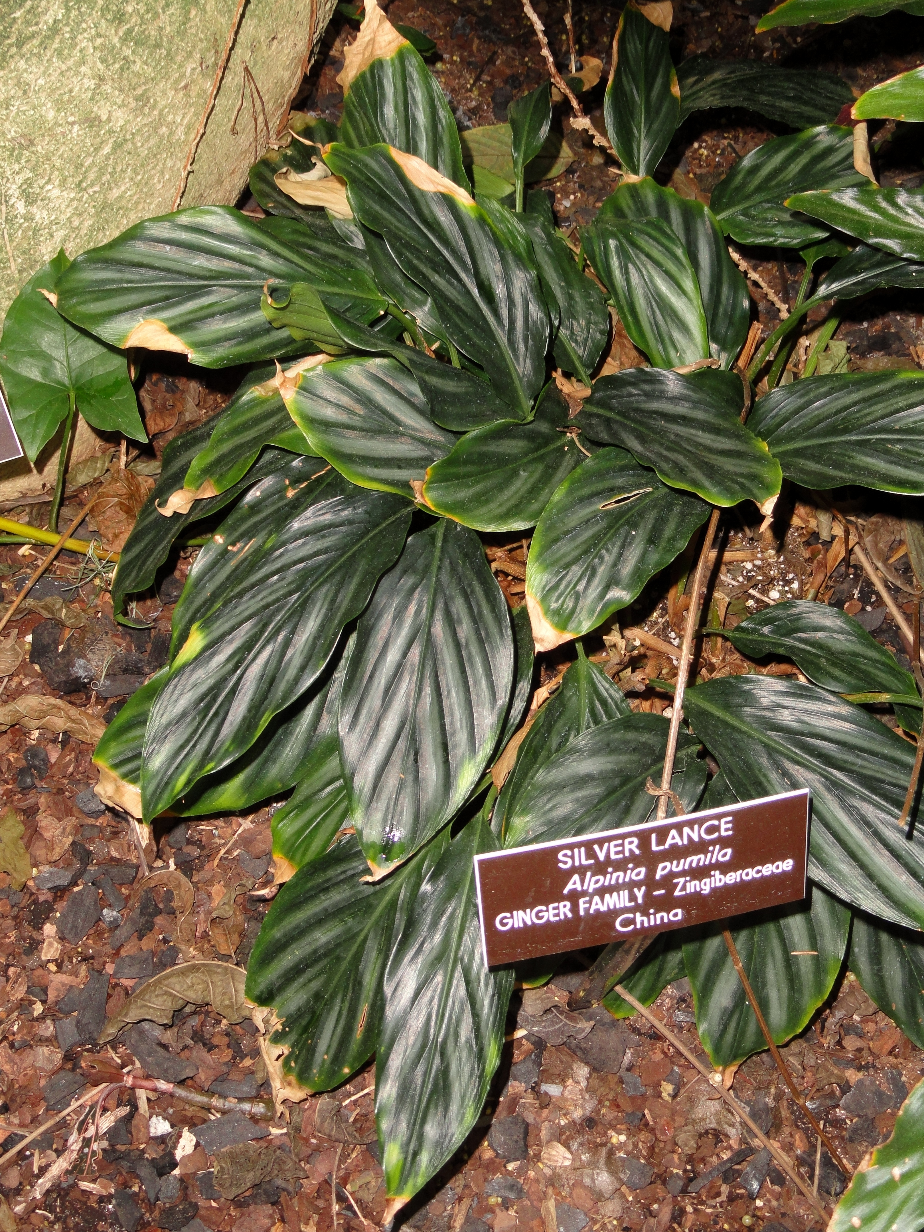 Botanical specimen in the United States Botanic Garden, Washington, DC, USA.